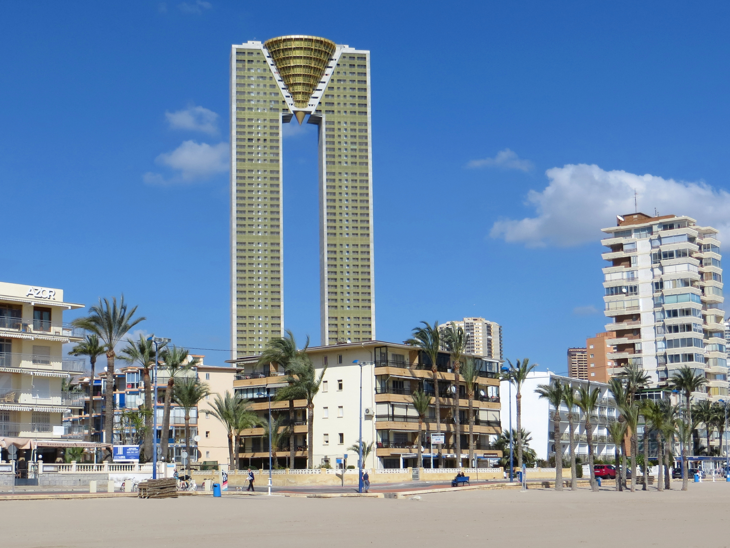 Intempo finish as shown from Poniente beach